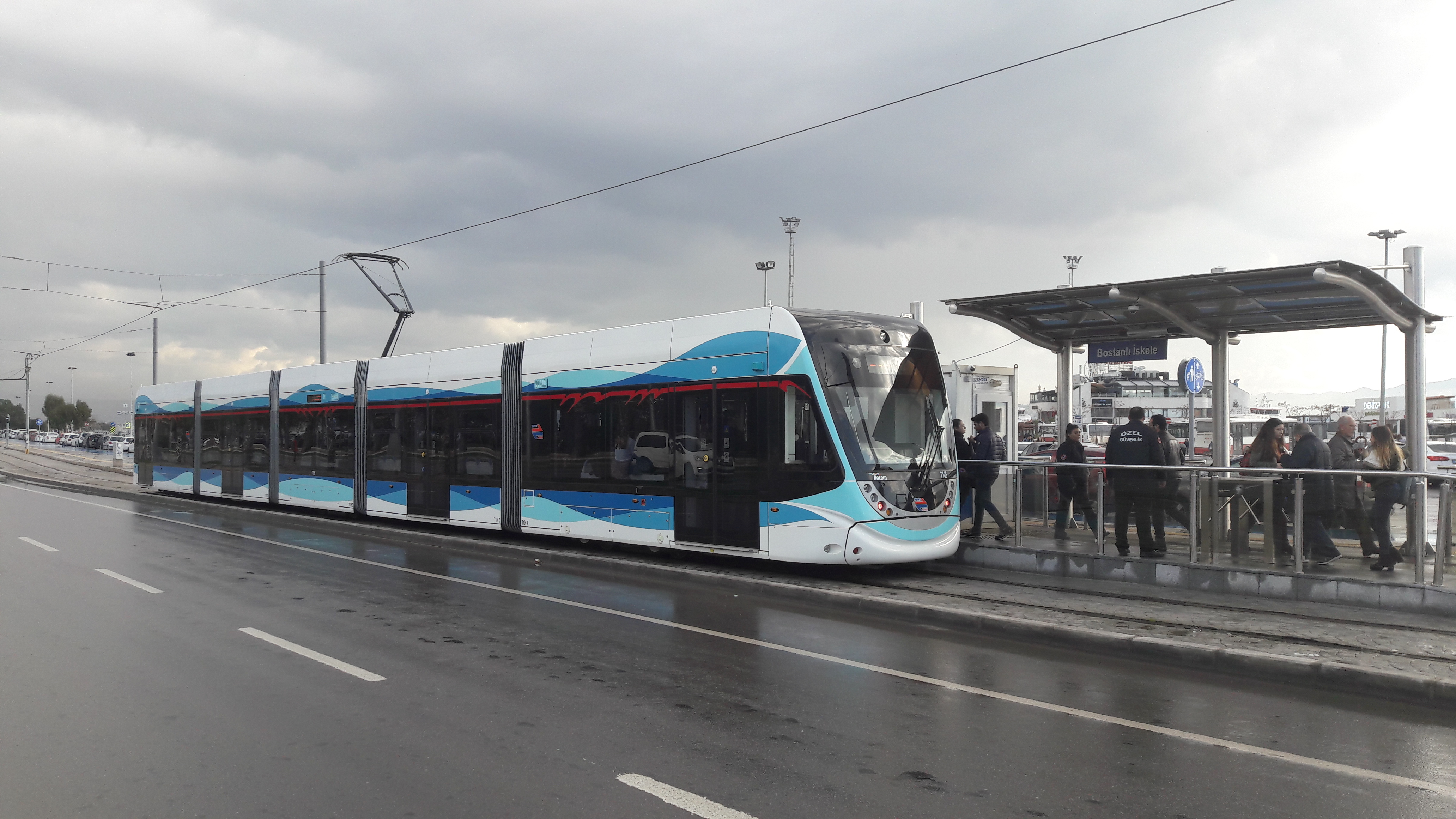 An eastbound tram at Bostanli Iskele station.